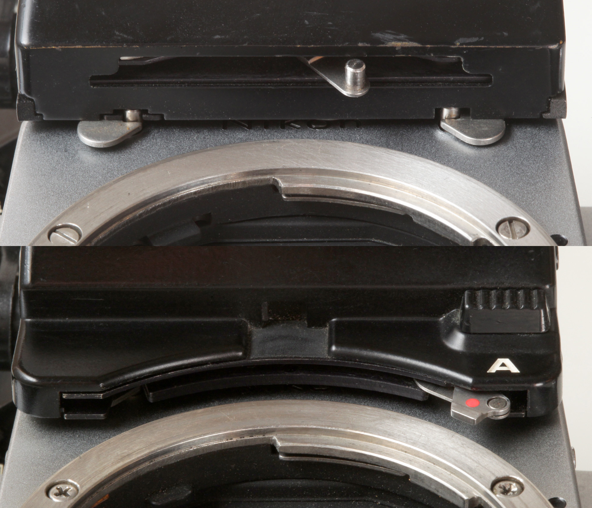 Nikon DP-1 (top) and DP-11 (bottom) Photomic viewfinders with different diaphragm transmitting mechanisms.